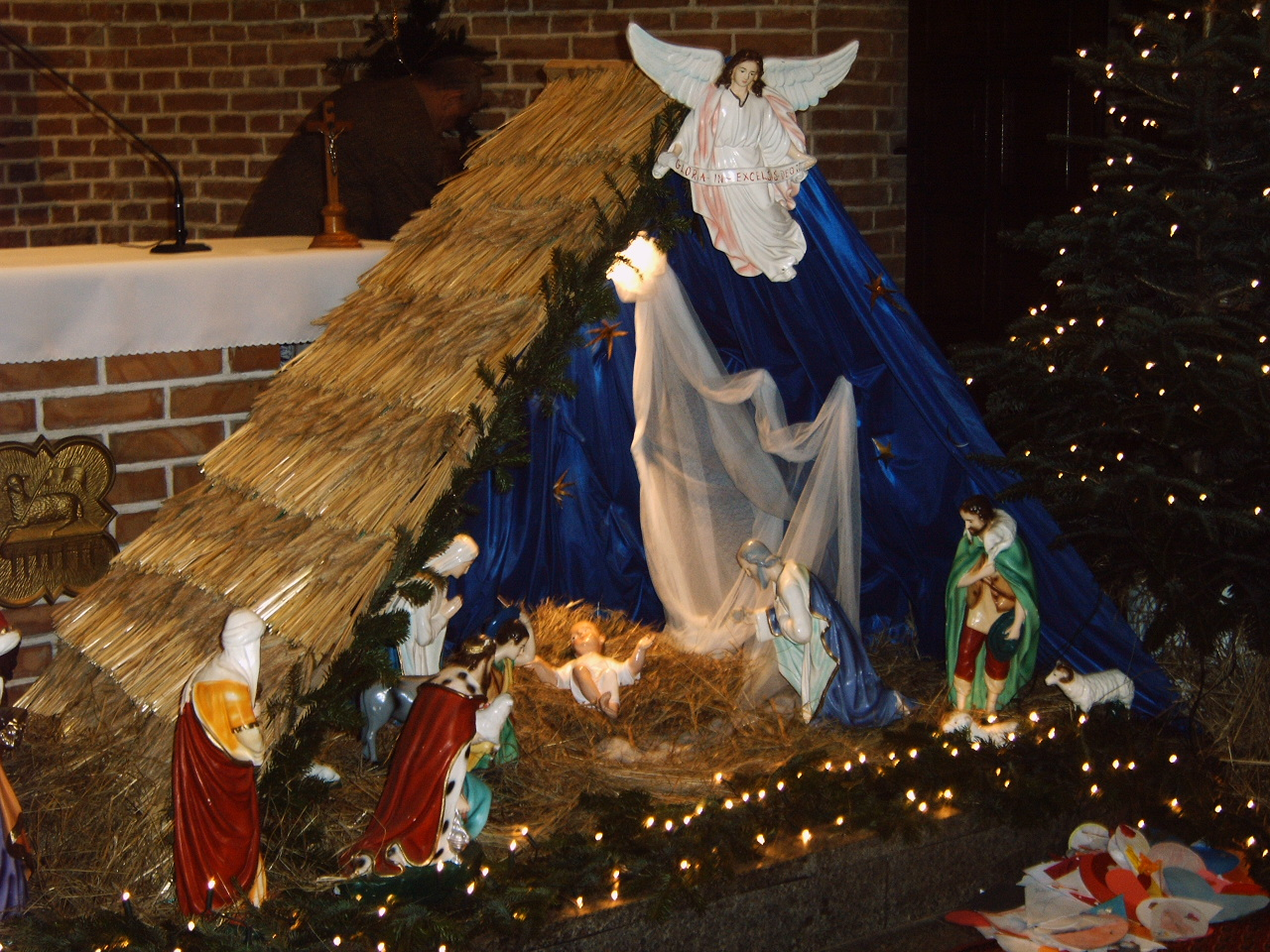 Poland, Mielno, church, Nativity scene 2006